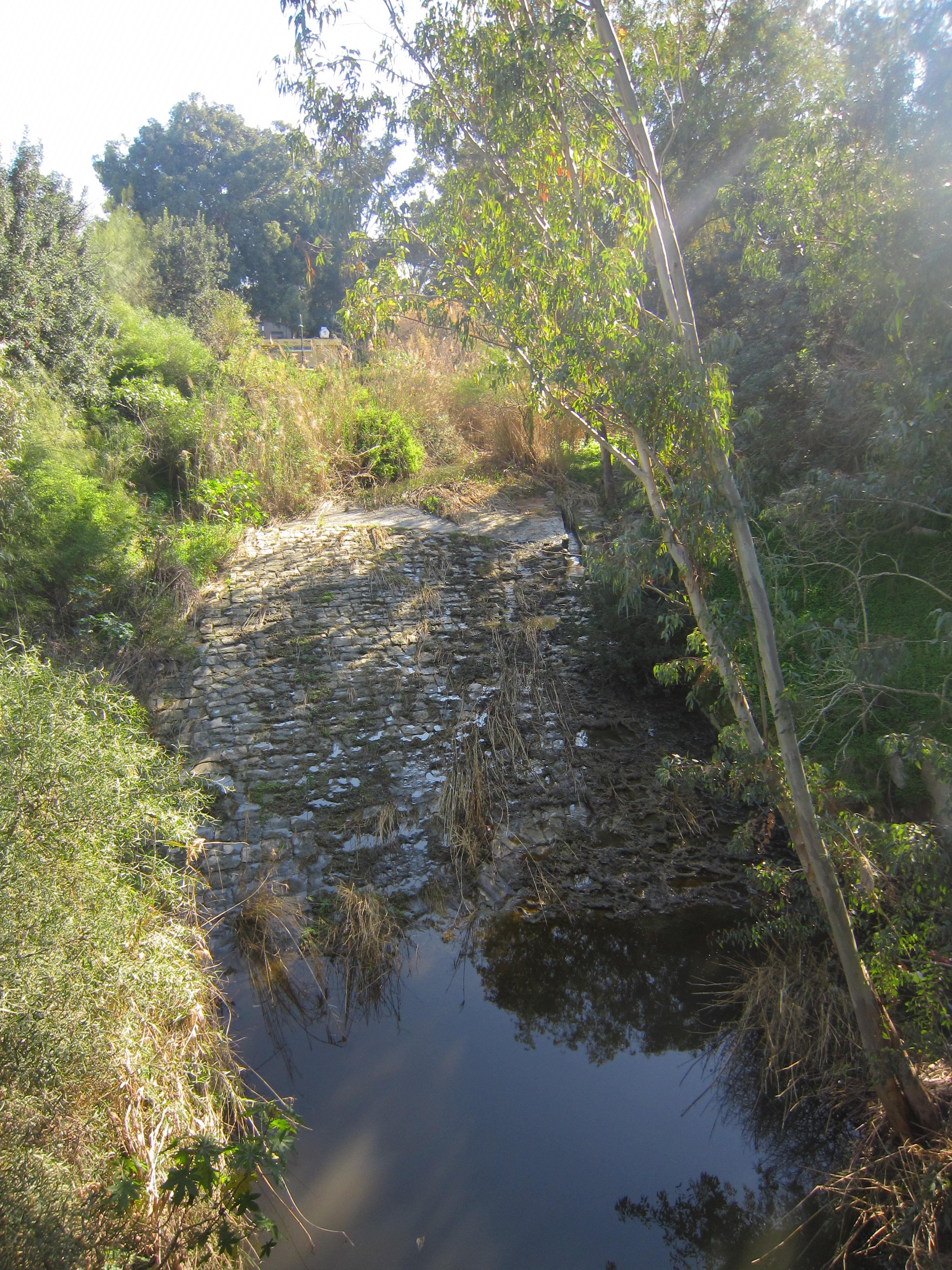 Riverbed of Pedieos river in Nicosia